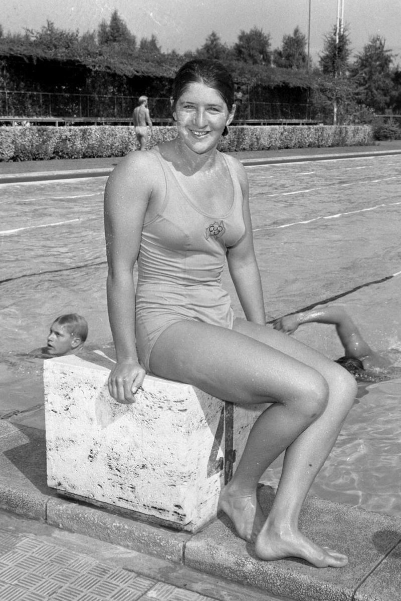 Australian swimmer Dawn Fraser in Rome takes a pause in the training at Piscina delle Rose during the 1960 Olympics.